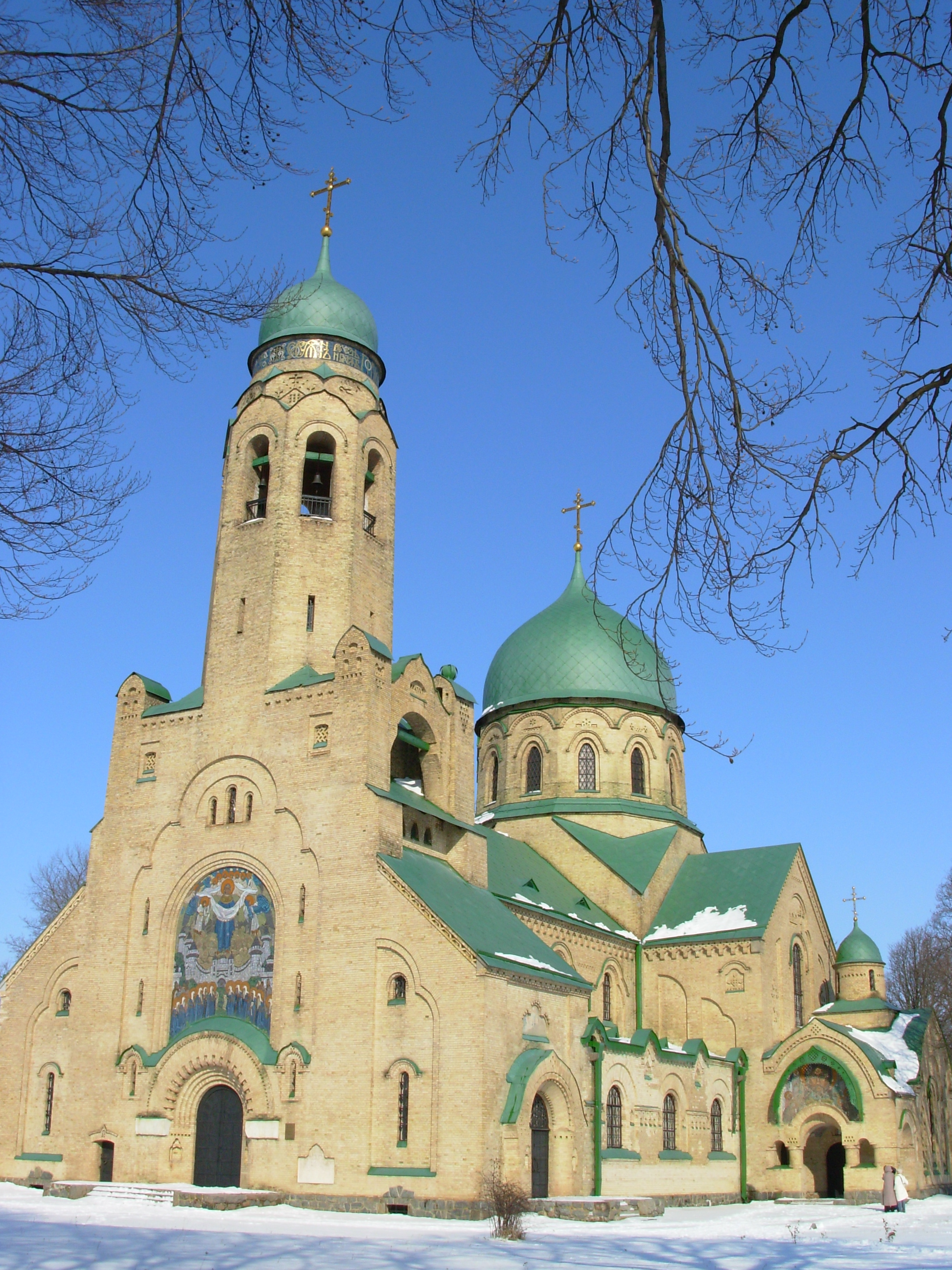 Пархомовка_церковь_март2006